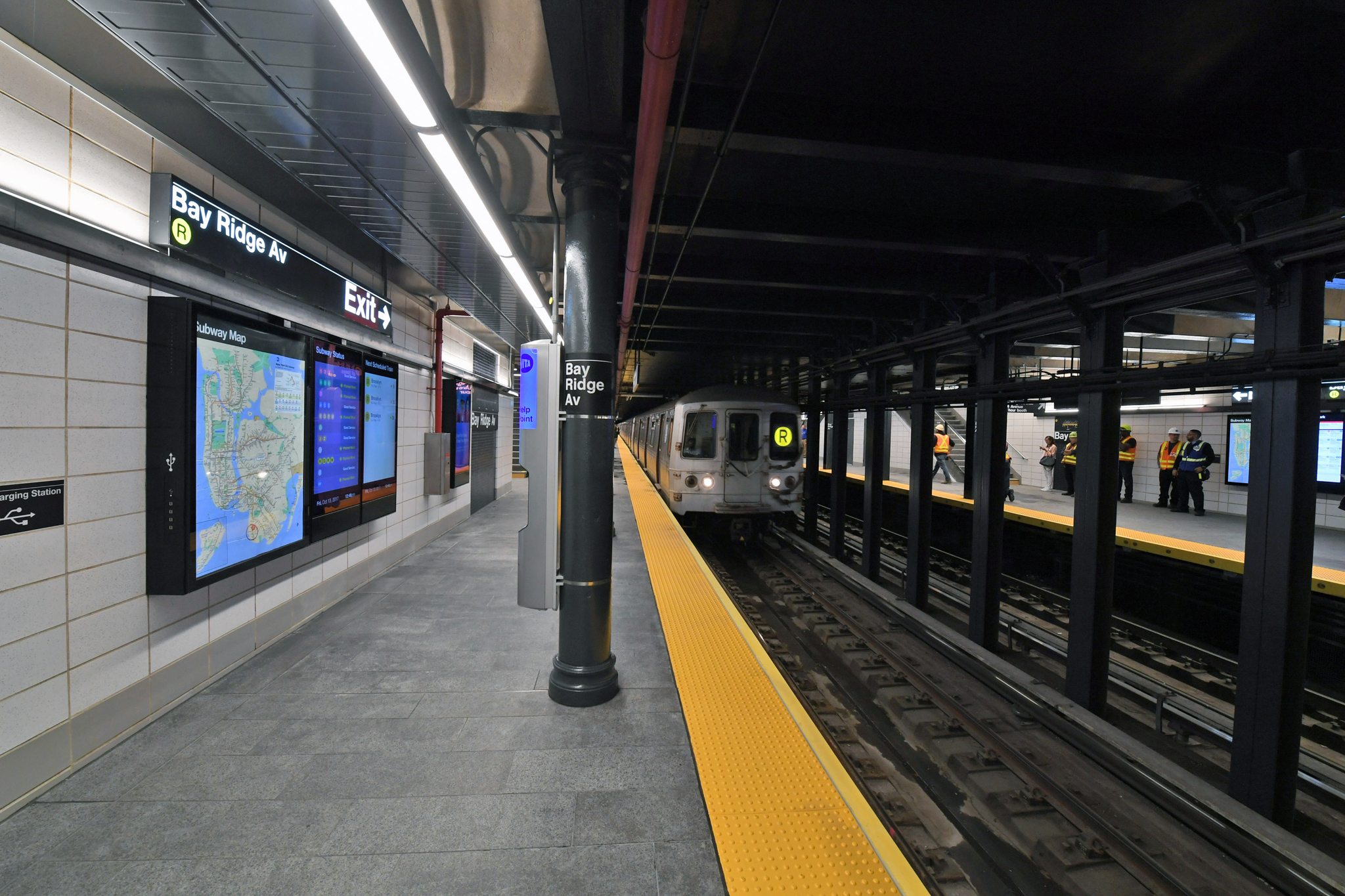 MTA Chairman Joseph J. Lhota and Managing Director Veronique "Ronnie" Hakim attend a ceremony celebrating the reopening of the Bay Ridge Av station on the Fourth Avenue "R" line on Fri., October 13, 2017 after a rehabilitation as part of the Enhanced Station Initiative (ESI.) Photo: Marc A. Hermann / MTA New York City Transit